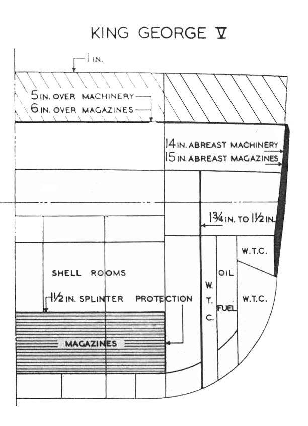 Cross sectional drawing of King George V through the main magazines showing the layout of the armour and the Side Protection System Copied from: KGV armour and SPS through main magazines.jpg Edited for clarity and image quality